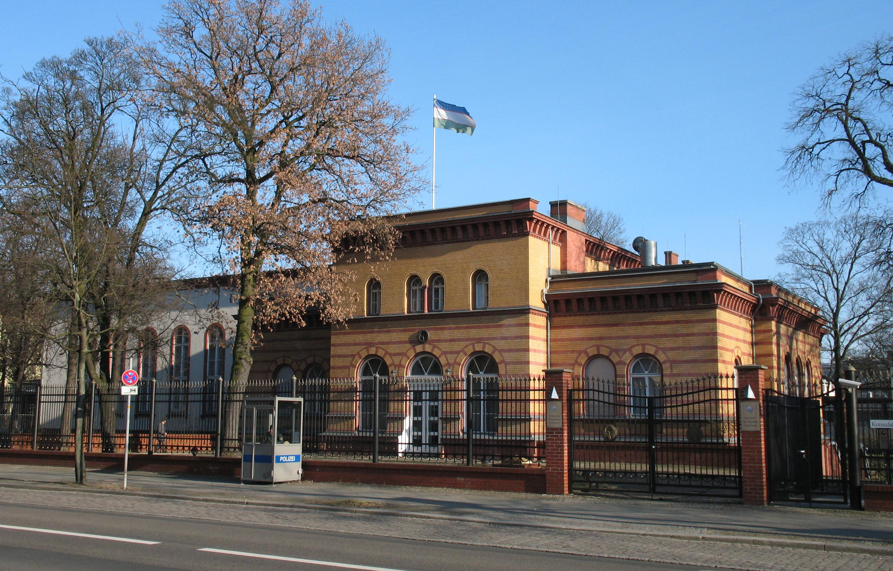 Embassy of the Republic of Uzbekistan in Berlin-Moabit, Germany